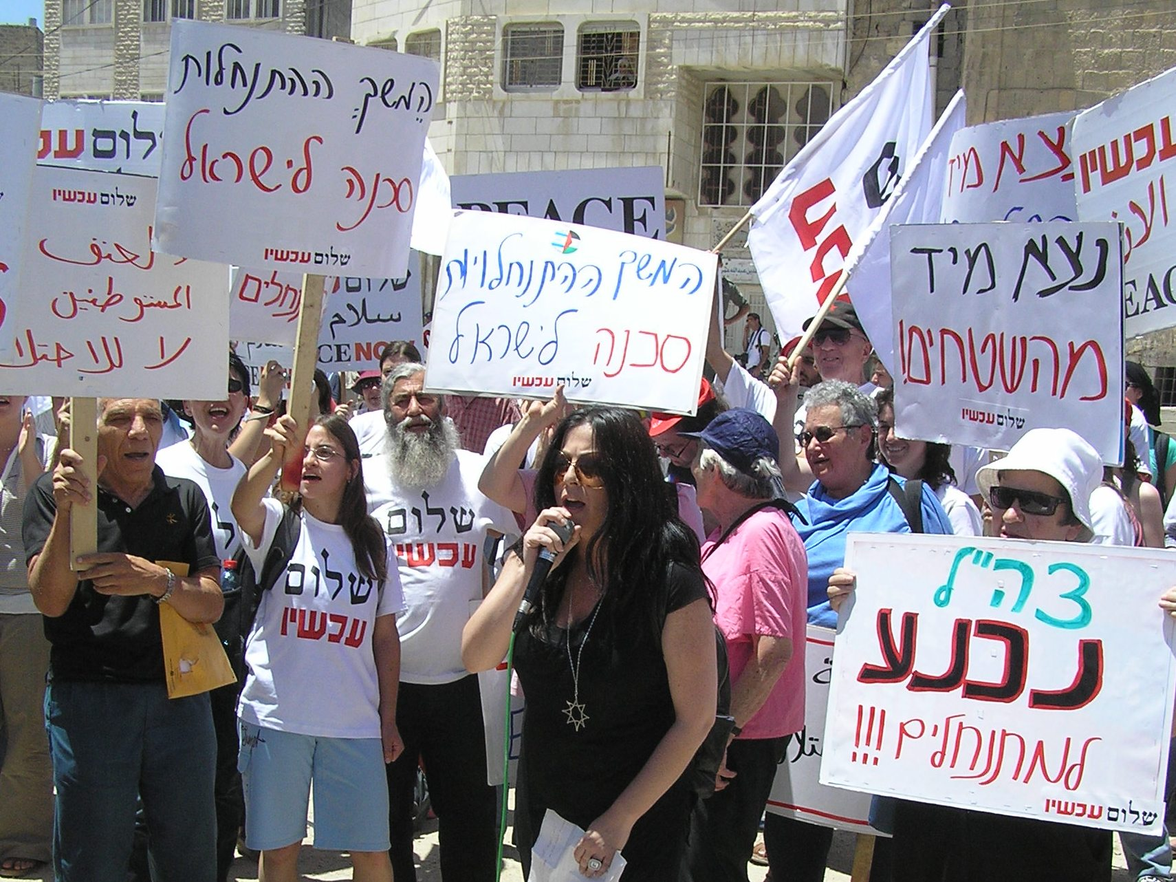 "Peace Now" demonstration in Hebron. A prominent Hebrew slogan is hemshekh hahitnakhlut sakana leyisrael "The continuation of settlements is a danger to Israel."